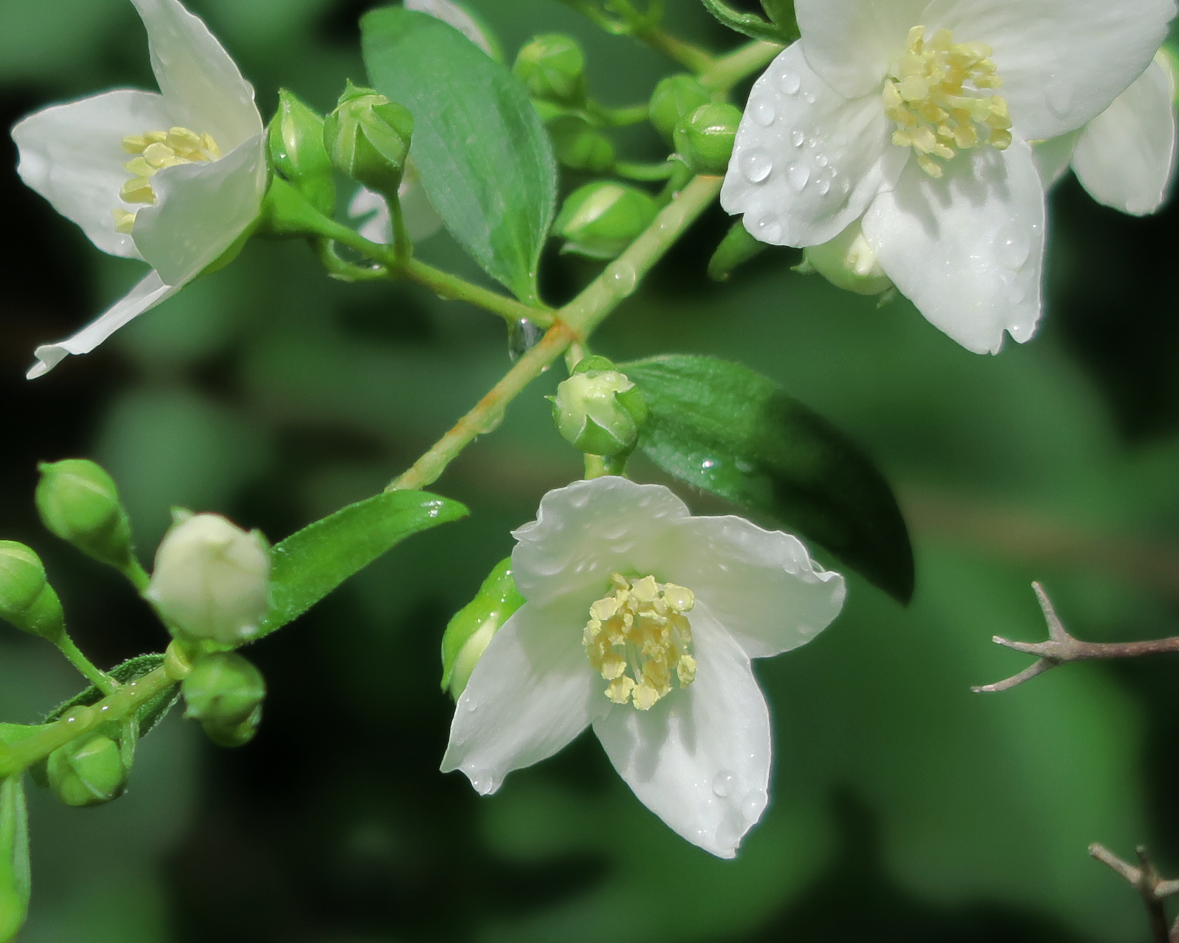 Philadelphus lewisii—Meriwether Lewis's mock orange. The state flower of Idaho. Simply stunning when in bloom. Lewis collected the type specimen on or near the Clark River in Montana. Photographed at Regional Parks Botanic Garden located in Tilden Regional Park near Berkeley, CA.